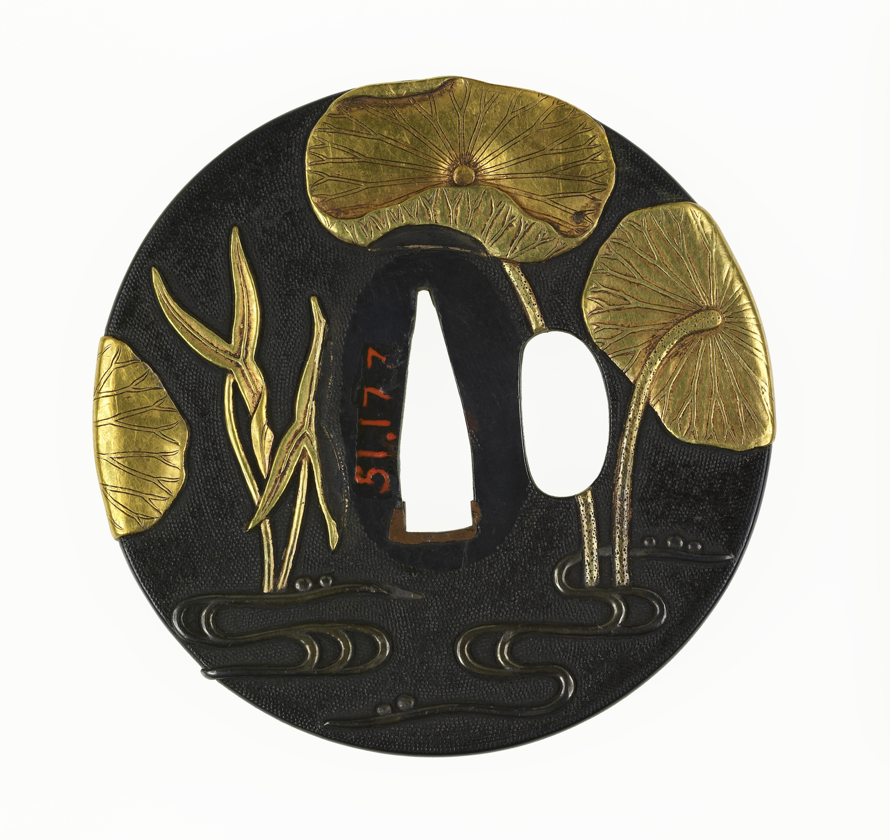 The primary motif of this tsuba is large lotus leaves in gold. The leaves at either side fold over the edge, which connects the two sides. Below the leaves, stylized lines in silver indicate water. Lotus grows in ponds of water. On the obverse, a frog is on the left, near the hole for the utility knife. The lotus is associated with Buddha and a state of purity.